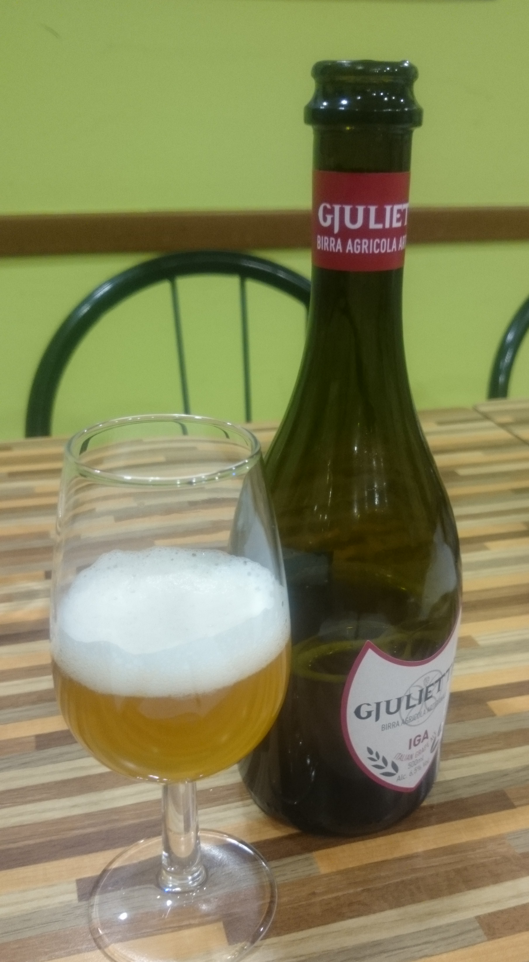 Italian Grape Ale Giulietta by the Friulan brewery Giulia